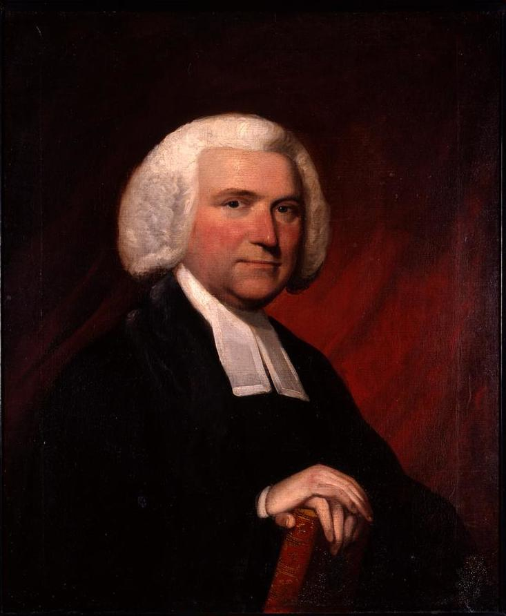 "Half length portrait of Mather Byles in clerical robe. He holds a book in his hands. "